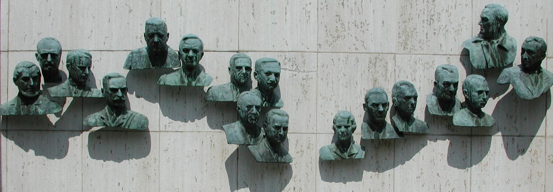 detail of Image:Polio_Hall_of_Fame.jpg showing only the bronze busts